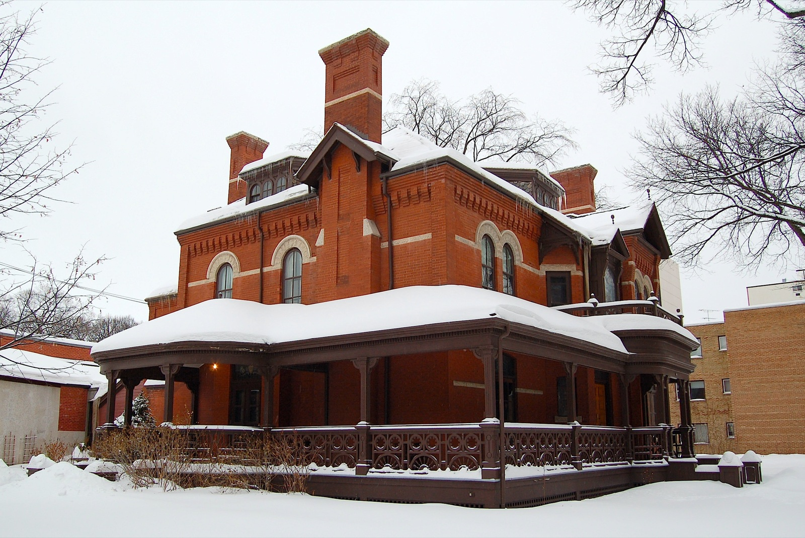 The Dalnavert Museum, a National Historic Site of Canada, located in Winnipeg, Manitoba.